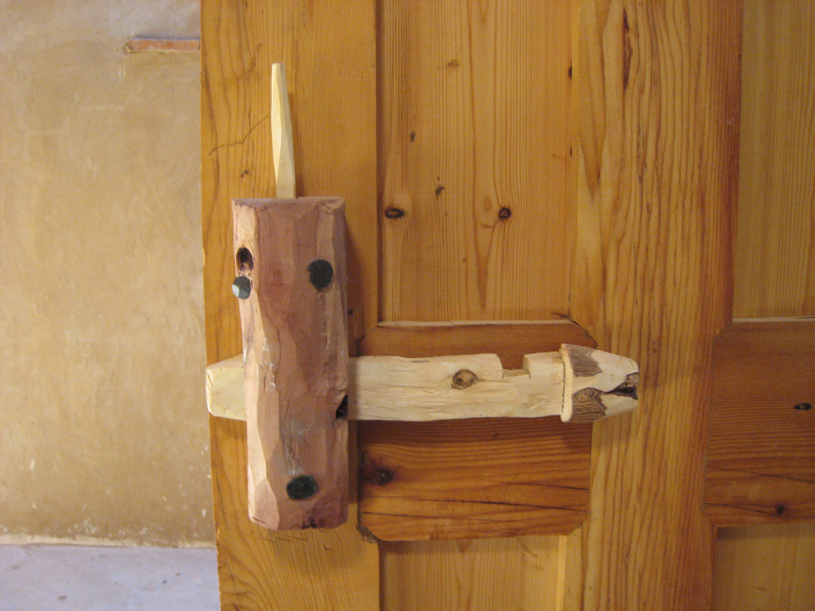 fabulous door bolts in the villa